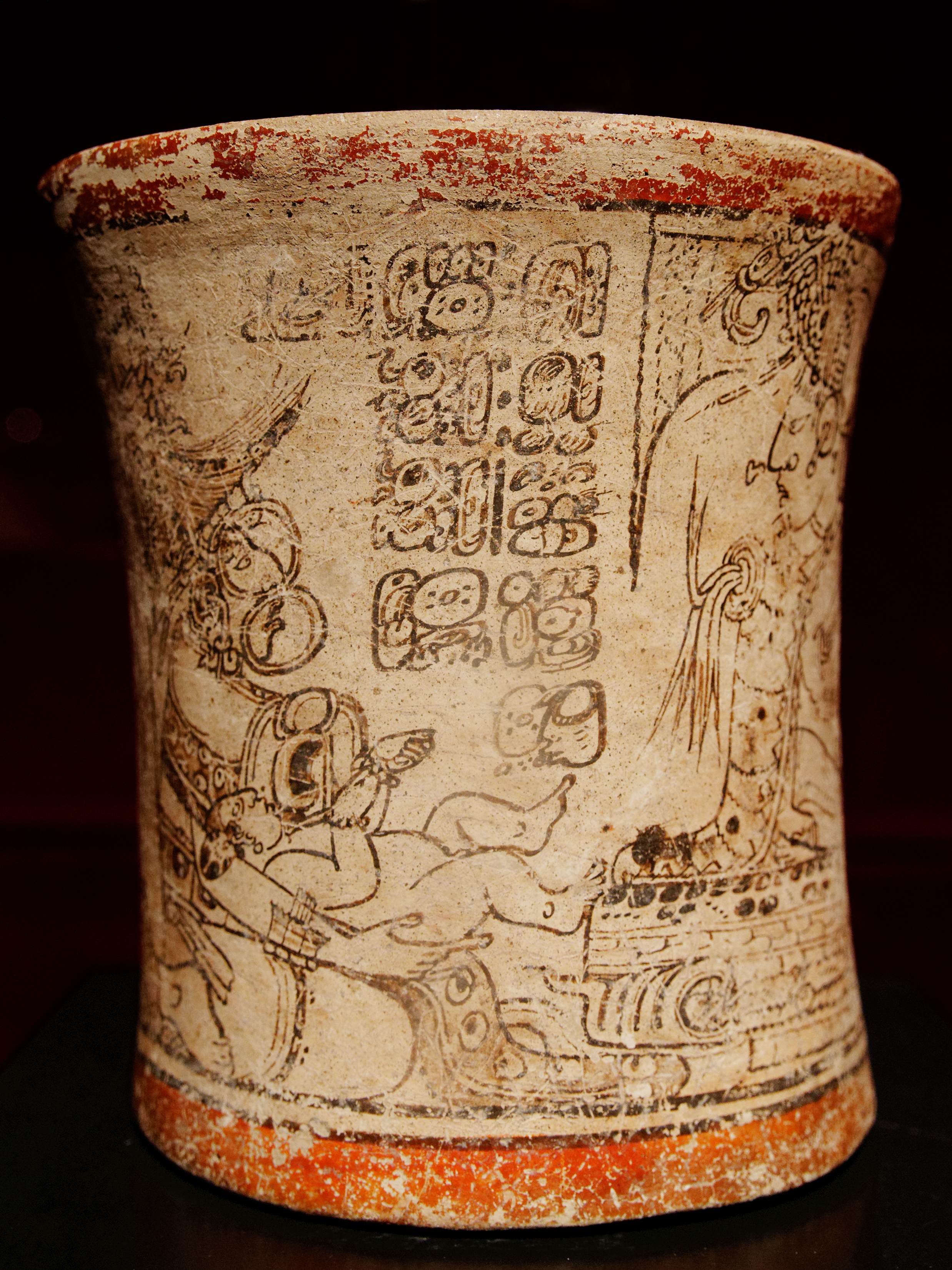 Codex vase with a palace scene. Maya culture, Mexico, Classic period.